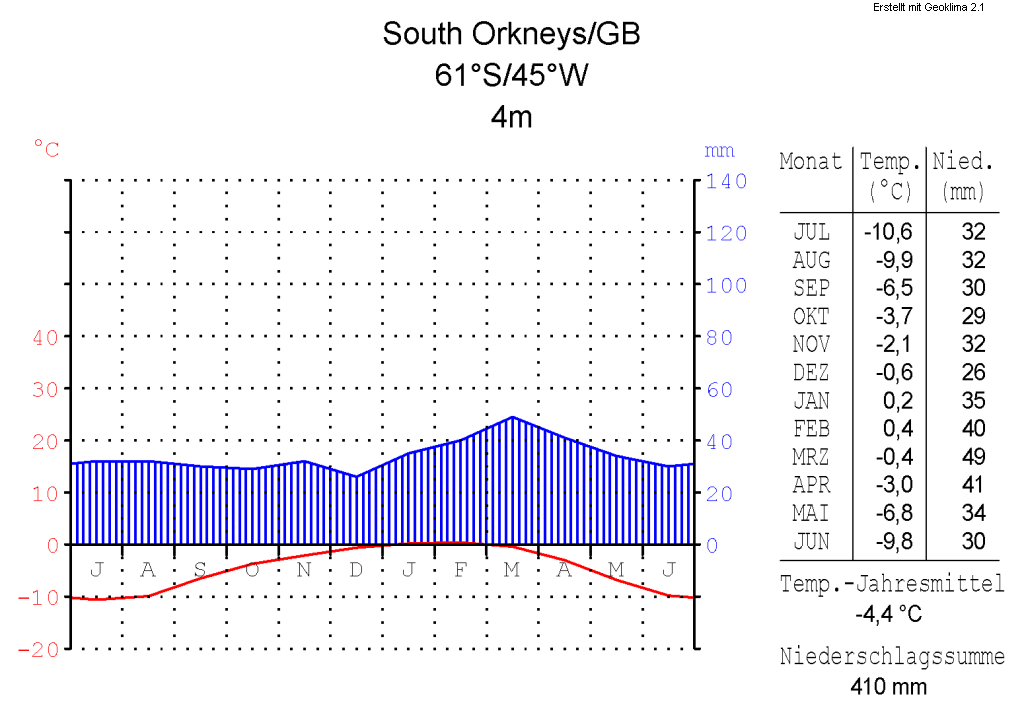 climate chart in the format by Walter and Lieth, metric, °Celsisus and millimeters, made with Geoklima 2.1